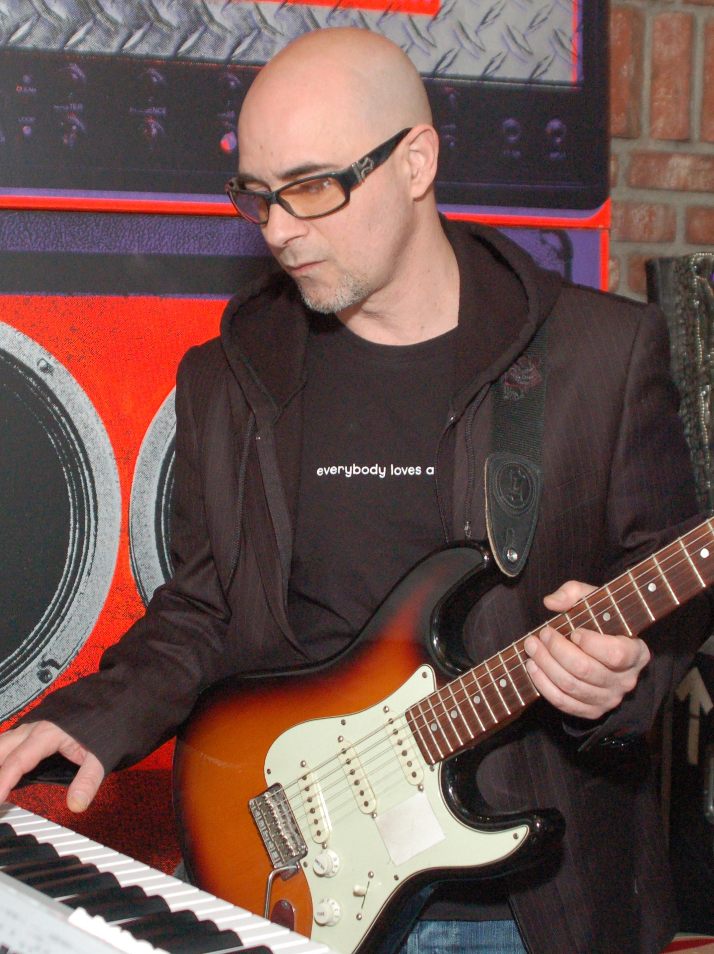 Warren Cuccurullo - an American rock musician who has been a long term member of Duran Duran (a little bit more hairy then).